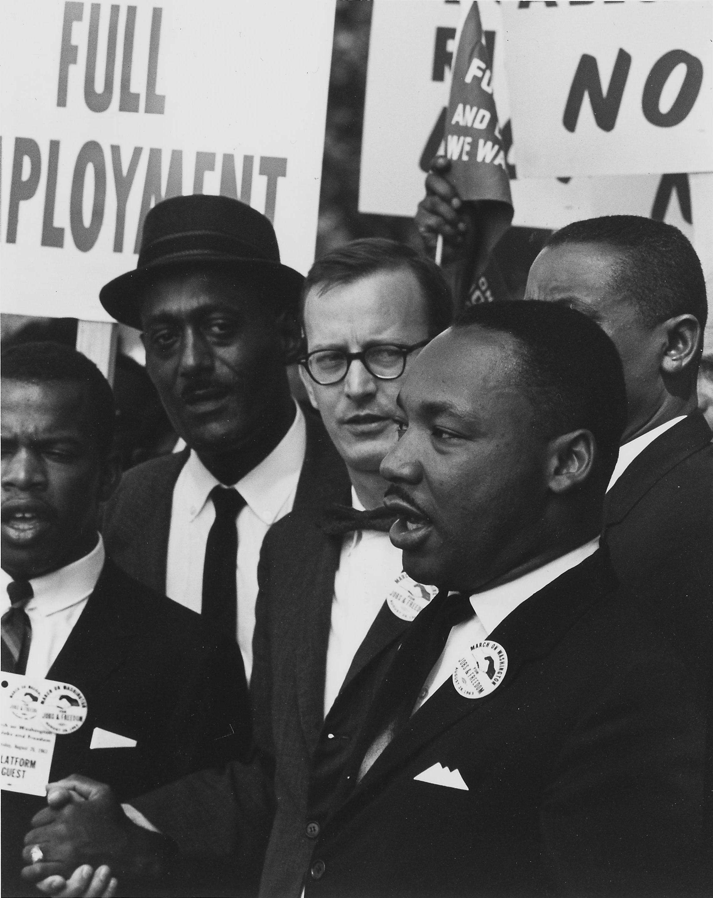 Dr. Martin Luther King, Jr., president of the Southern Christian Leadership Conference, and Mathew Ahmann, executive director of the National Catholic Conference for Interrracial Justice, at a civil rights march on Washington, D.C.